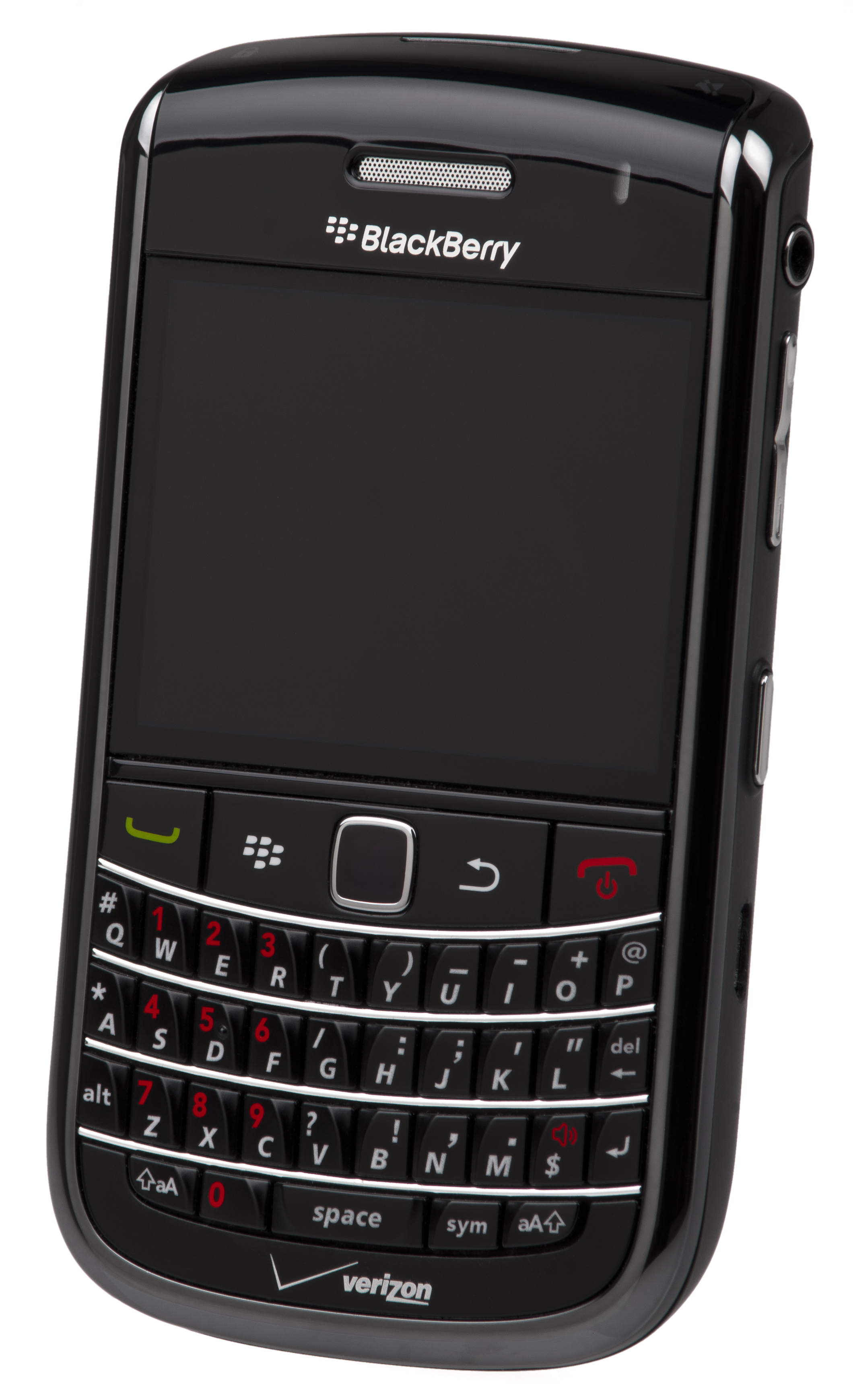 A BlackBerry Bold 9650 cell phone for the Verizon Wireless phone network.